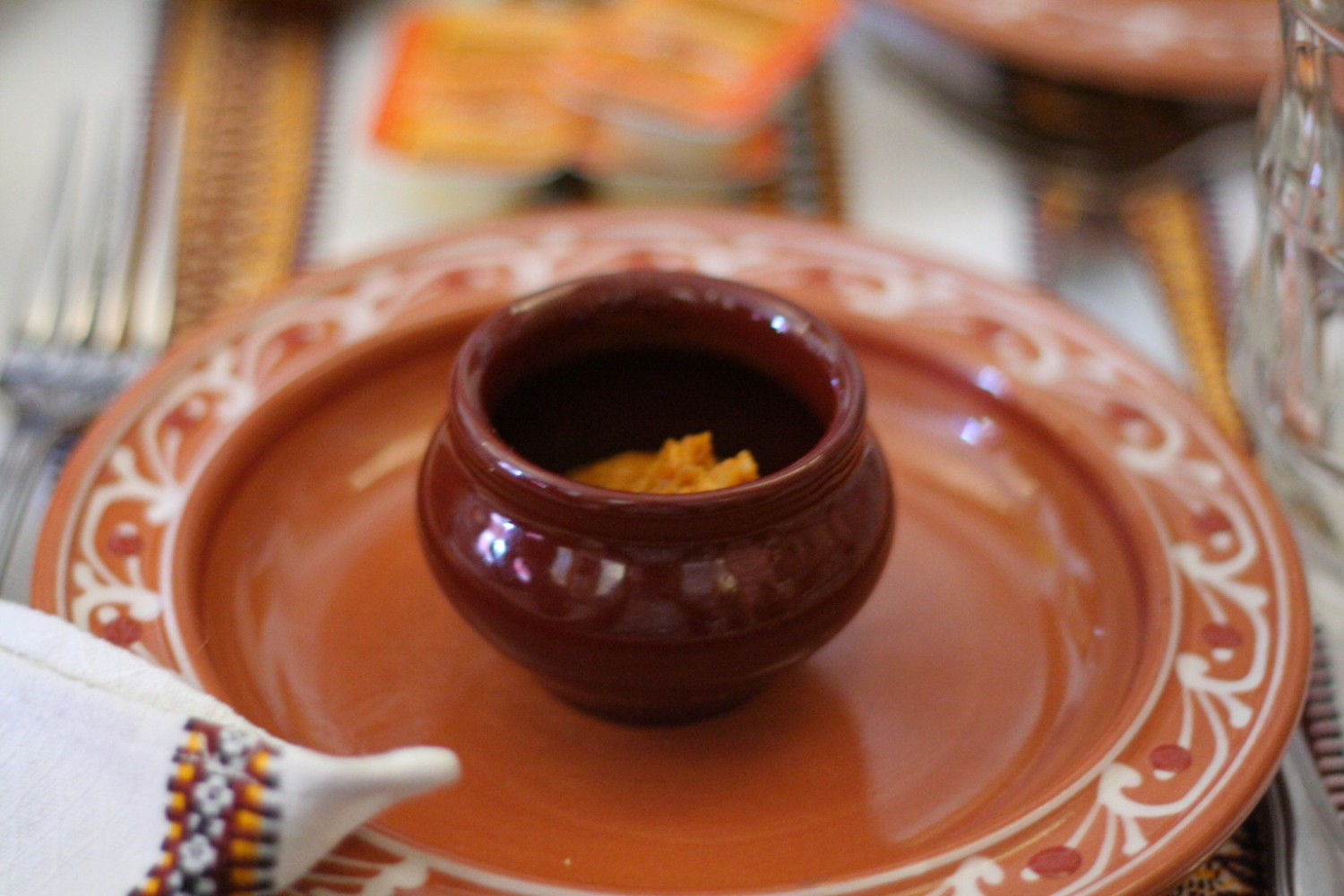 Smaleс (sort of pig lard) with spices in ukrainian korchma (national restaurant) "Taras Bulba", Moscow